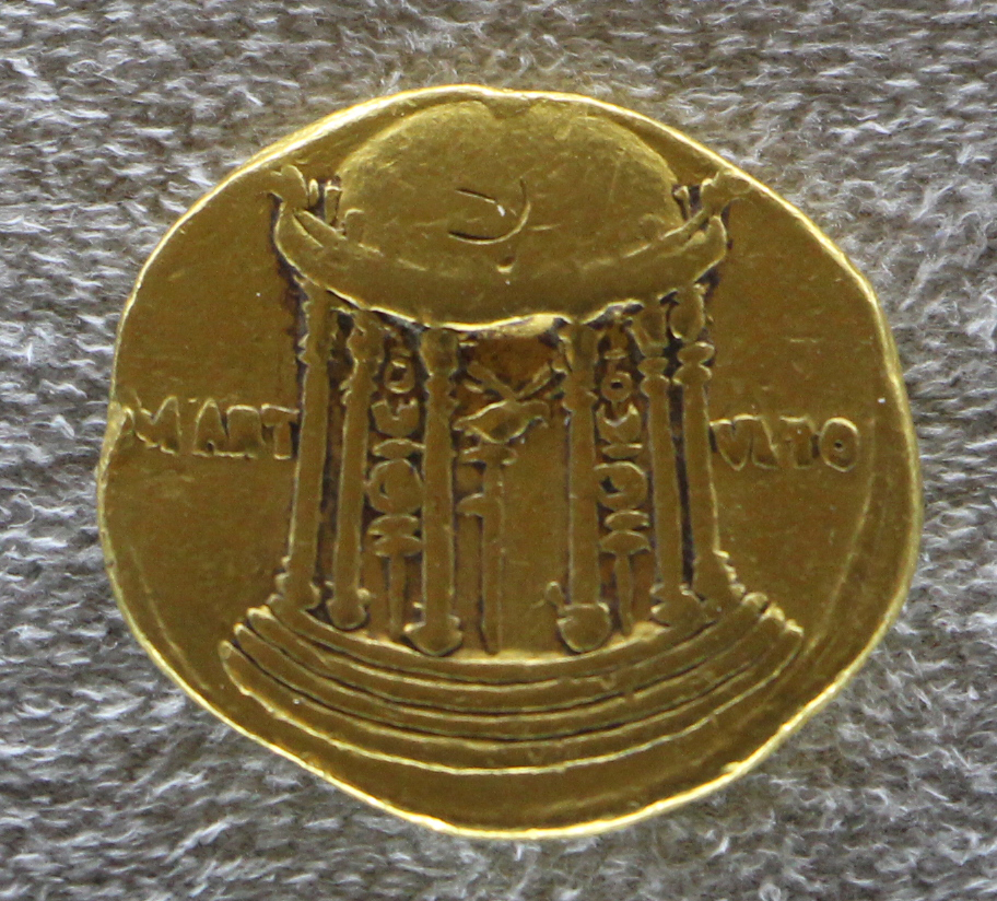 Ancient Roman coins in the Museo archeologico nazionale (Florence)